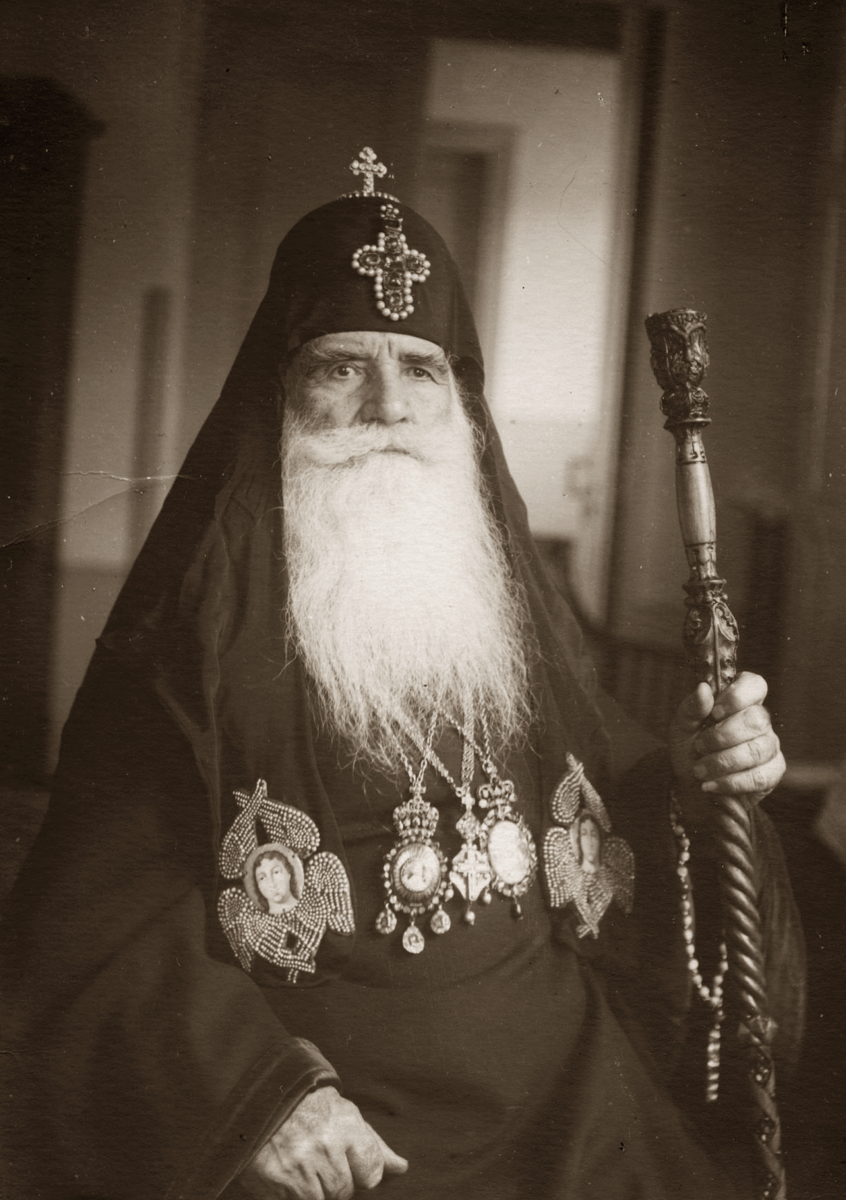 patriarqi melqisedek III